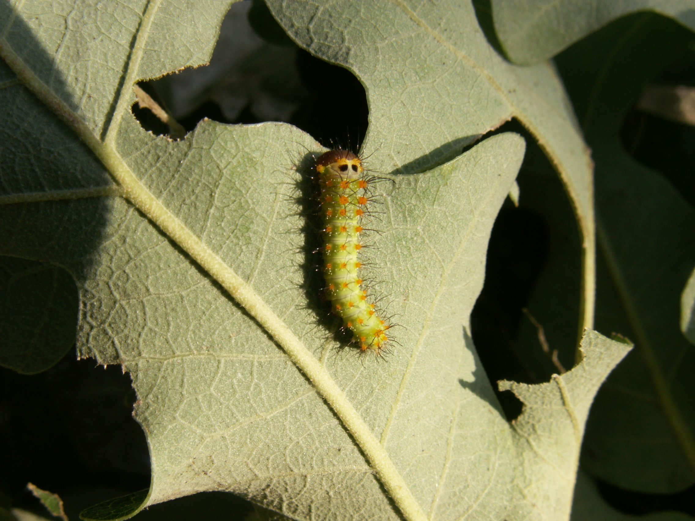 Antheraea pernyi 2nd instar caterpillars feeding on Quercus (Oak). Raised by Shawn Hanrahan.